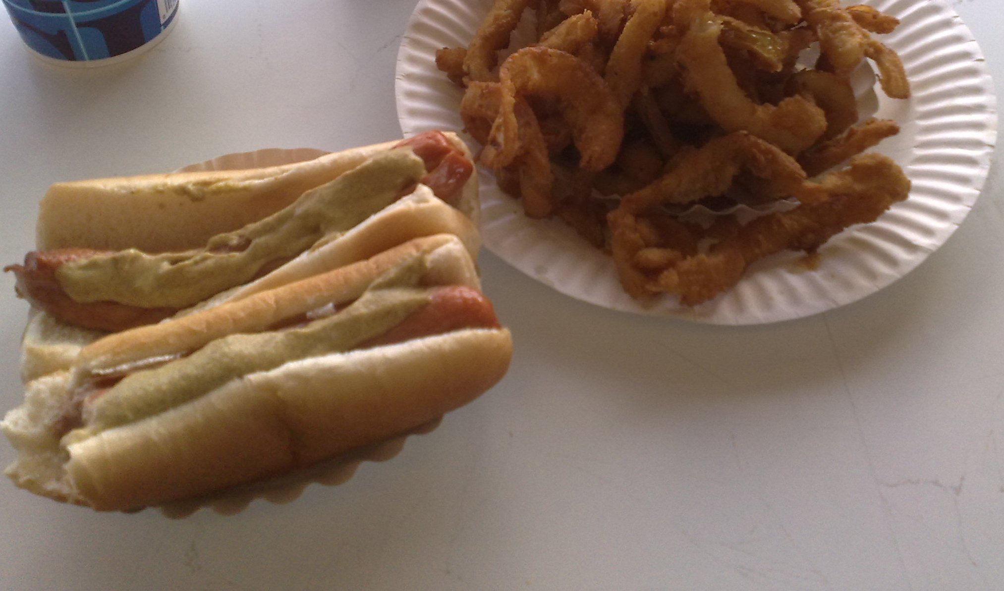 Ripper is the slang term for a type of hot dog that is popular in New Jersey, USA. The hot dog is deep fried in oil until the casing bursts, or "rips."